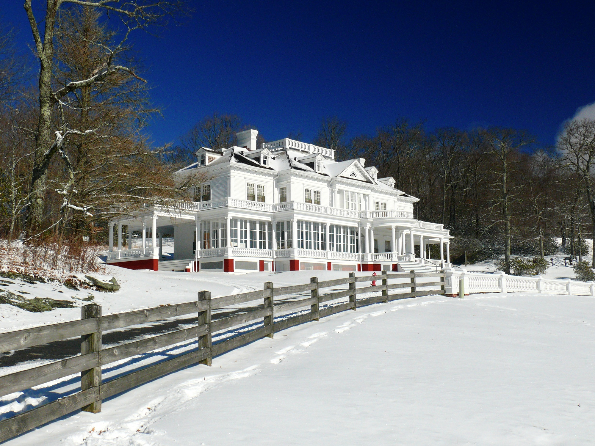 Flat Top Manor at Moses H. Cone Memorial Park, near the town of Blowing Rock on the Blue Ridge Parkway. Photo taken with a Panasonic Lumix DMC-FZ50 in Watauga County, NC, USA. Cropping and post-processing performed with The GIMP.